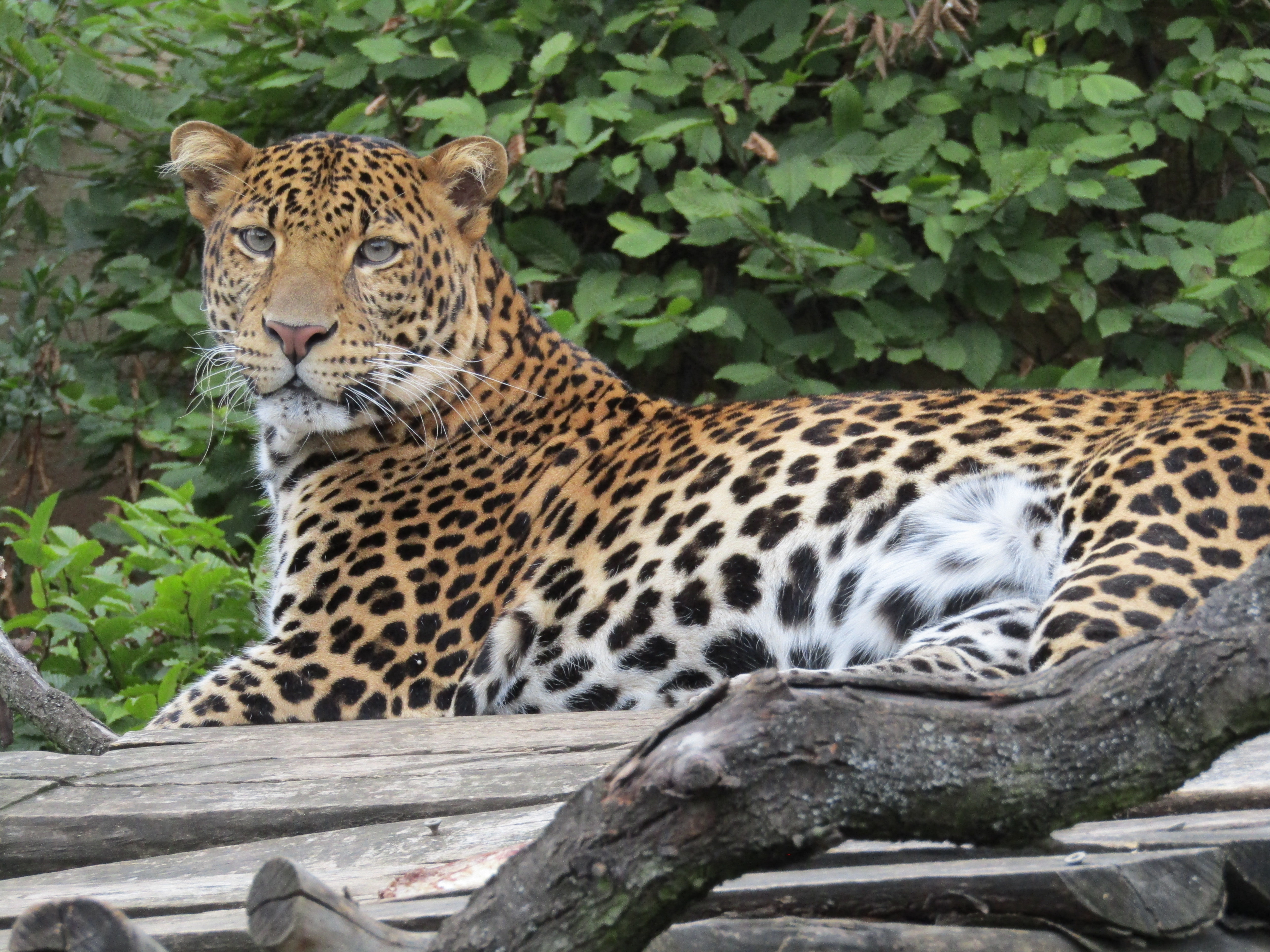 Panthera pardus melas in Prague Zoo